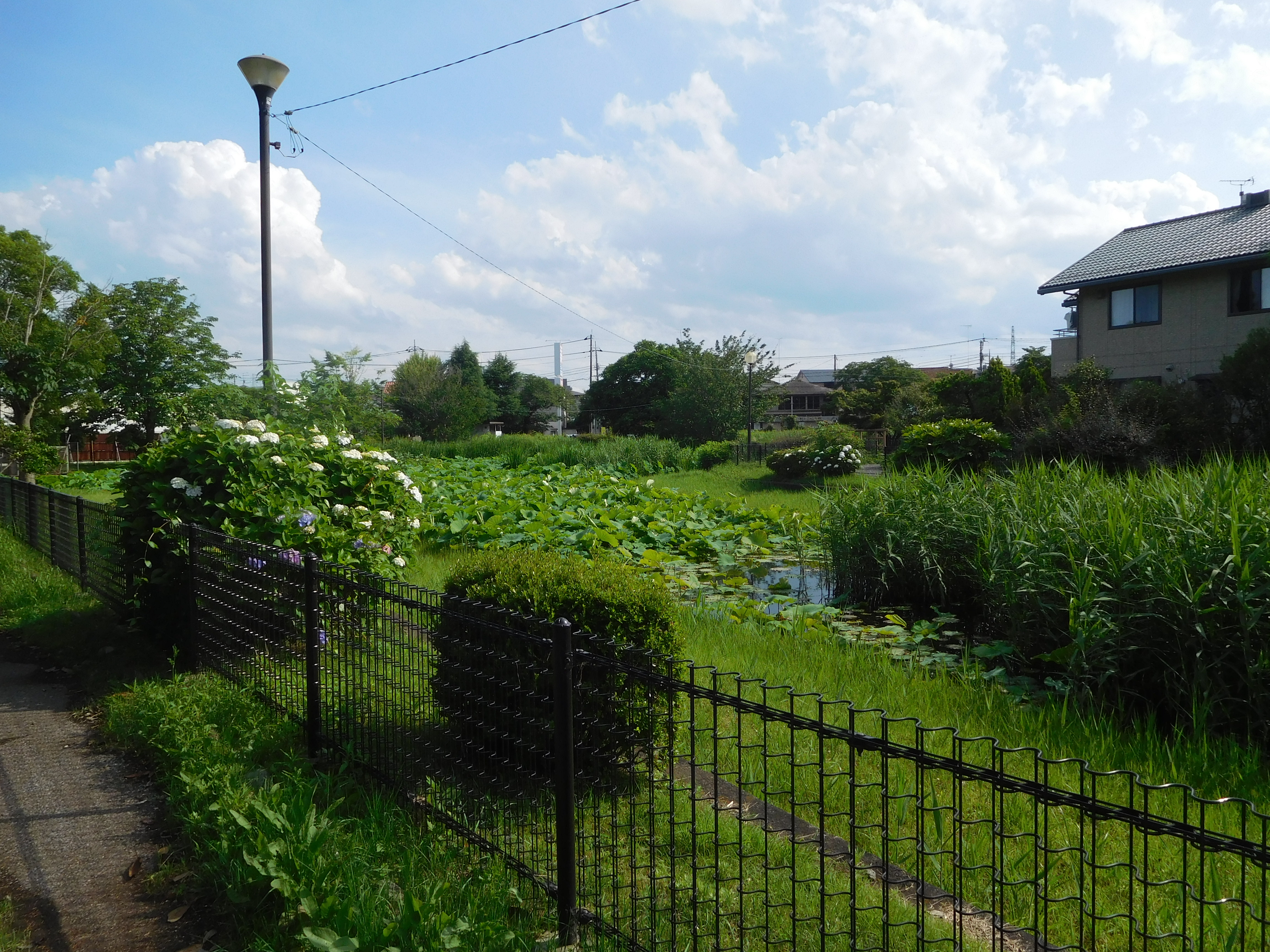 This is Nakamaru Park in Utsunomiya, Tochigi, Japan.